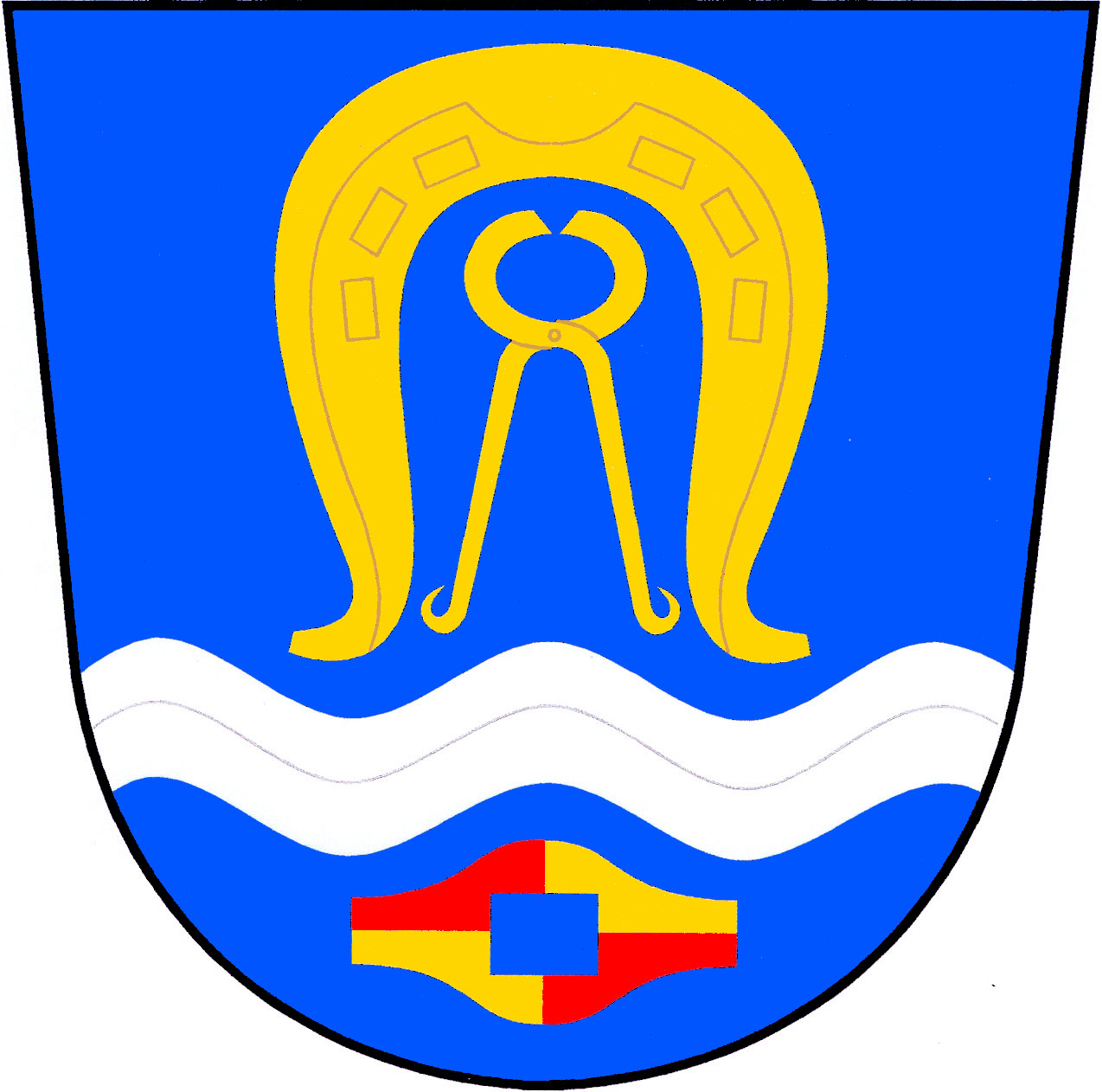 Municipal coat of arms of Dolní Řasnice village, Liberec District, Czech Republic.